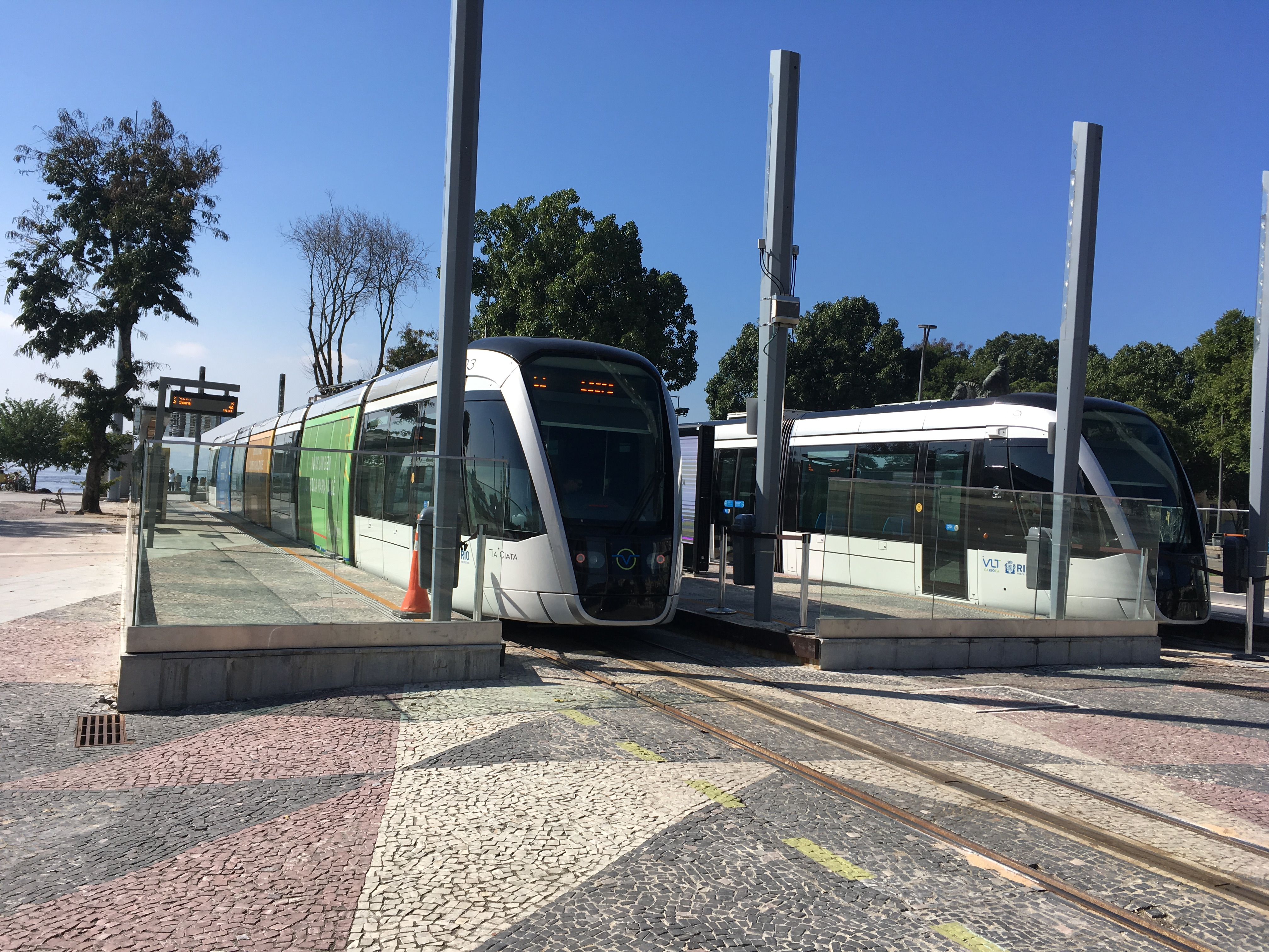 Rio de Janeiro LRT, Praça XV station.